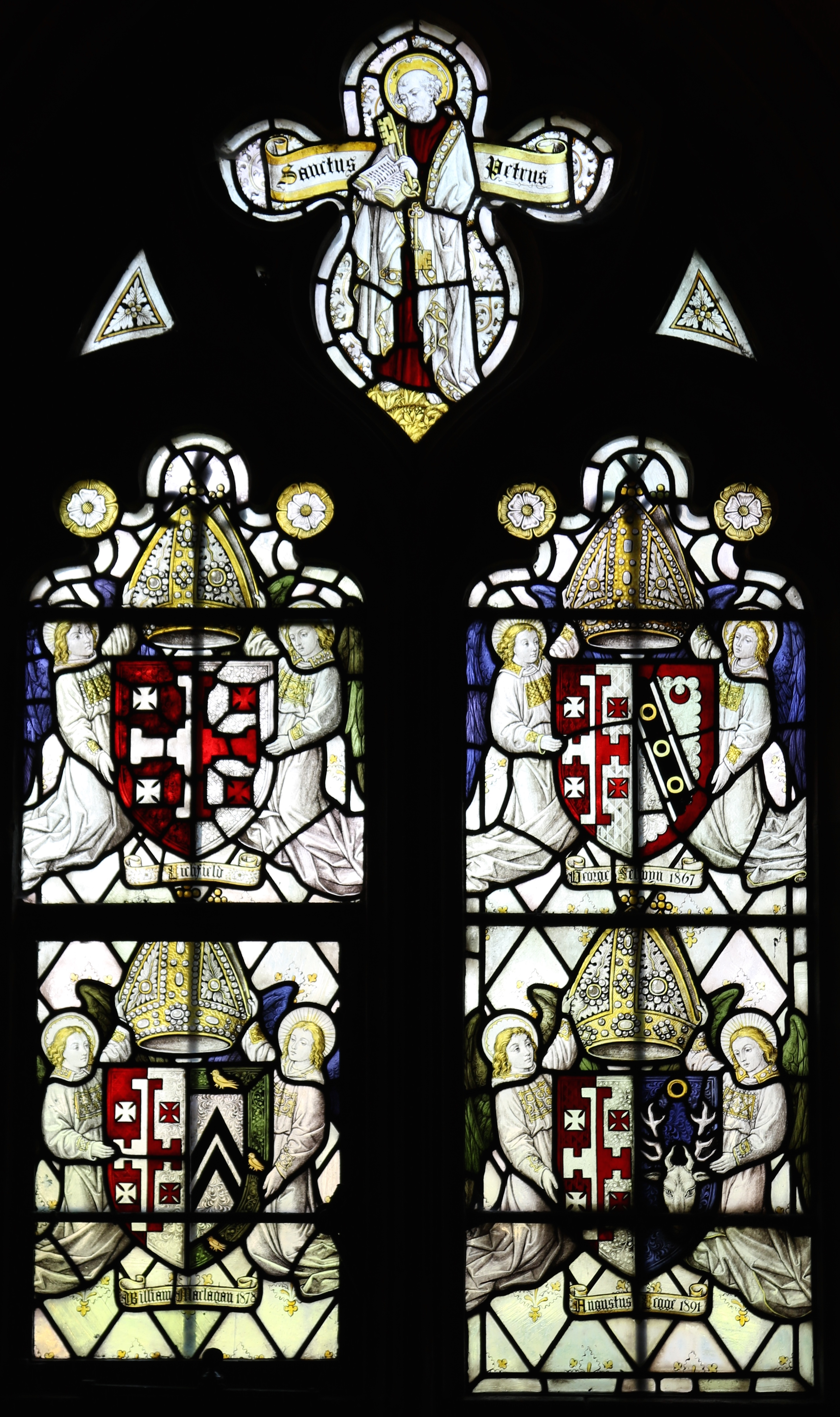 Arms of the Diocese and Bishops of Lichfield in the Church of the Holy Angels, Hoar Cross, Staffordshire